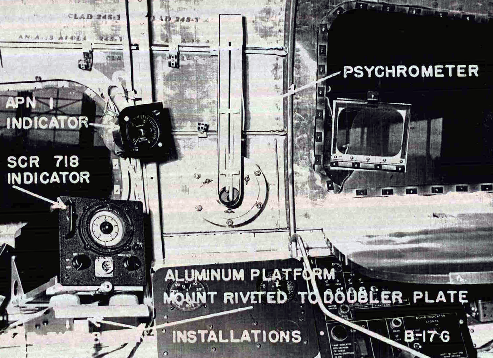 1st Weather Reconnaissance Squadron B-17 Weather Instruments.